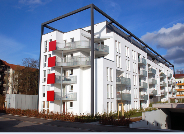 Hohenbühlweg